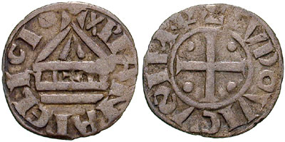 Switzerland, St. Maurice d'Agaune, Abbey of. 12th-13th Century. AR Denier (0.92 gm). Temple XPI S MAVRICI Cross; pellets in angles. LVDOVICVS IMP (lying S) Cf. Corragioni pl. 1, 39. Toned, near VF. This coin imitates the deniers of the Carolingian Louis the Pious.